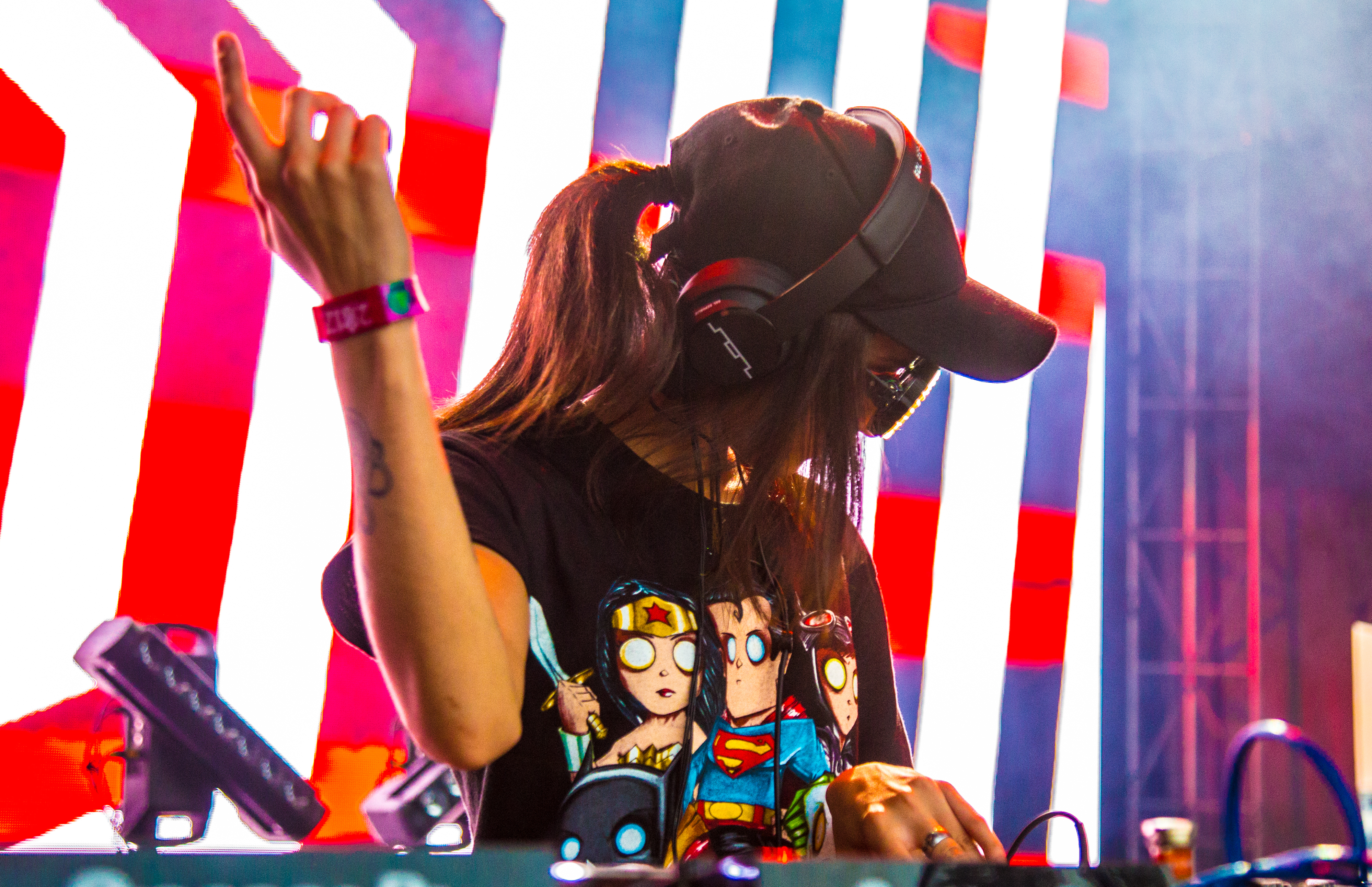 Rezz performs at the 2017 Bonnaroo Music & Arts Festival